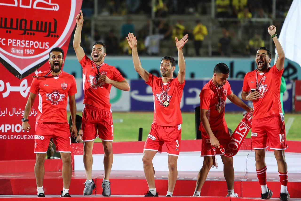 FC Persepolis trophy celebrations. 2018–19 Persian Gulf Pro League.